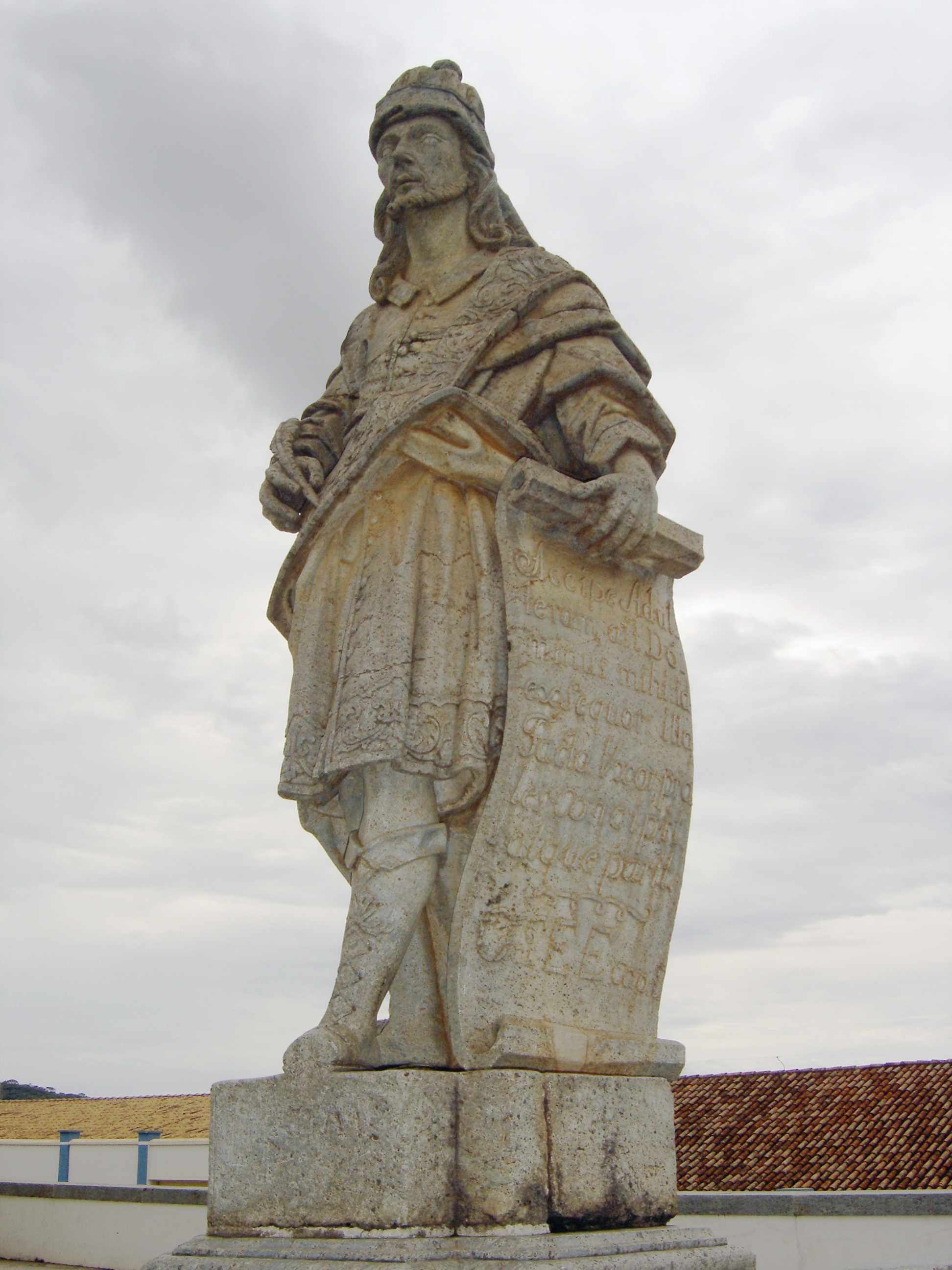 Statue of the prophet Hosea sculpted by Aleijadinho in front of the church of the sanctuary of Bom Jesus of Matosinhos at Congonhas, Minas Gerais, Brazil ; material : soapstone.